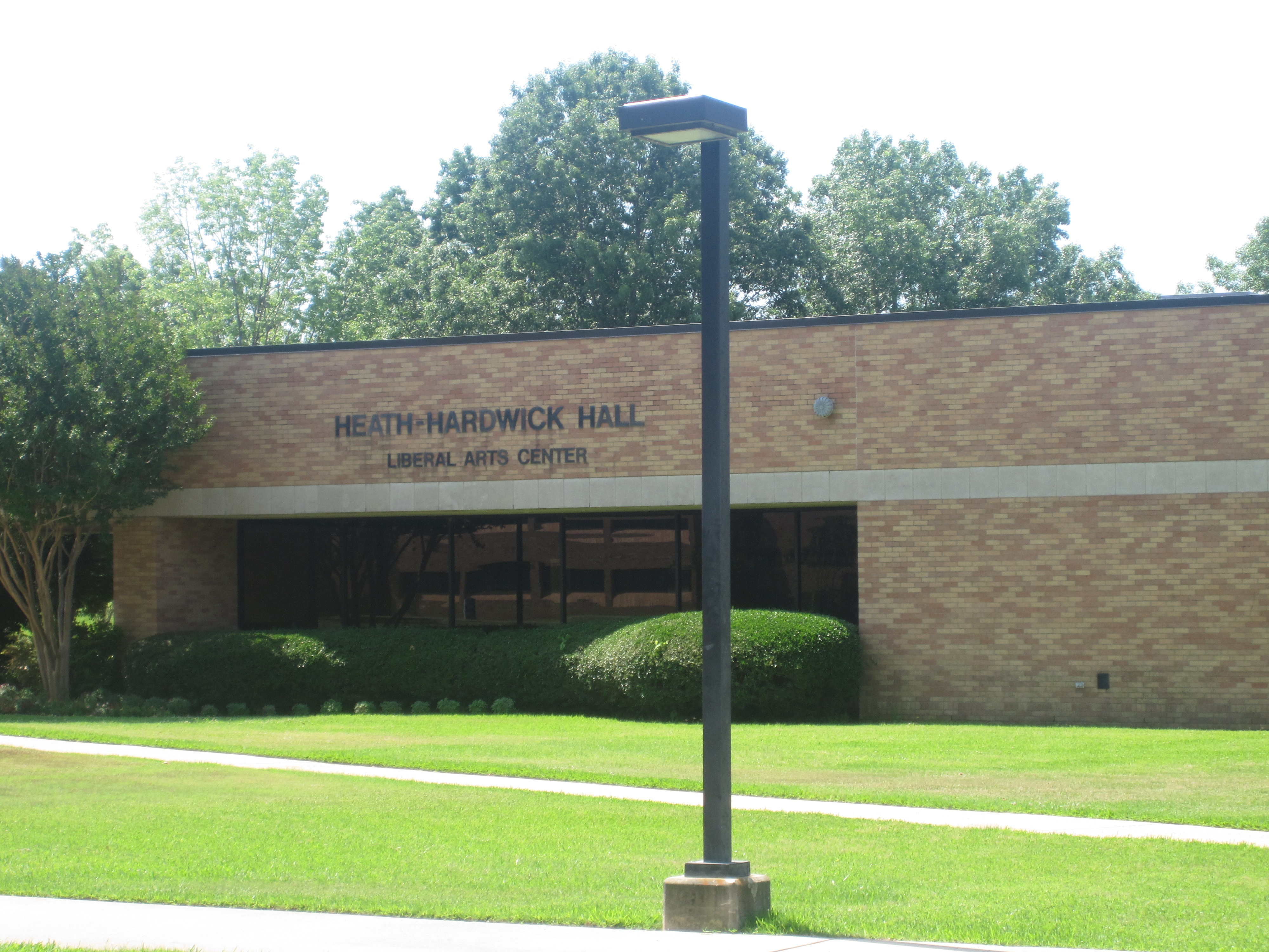 I took photo with Canon camera in Longview at LeTourneau Univ.